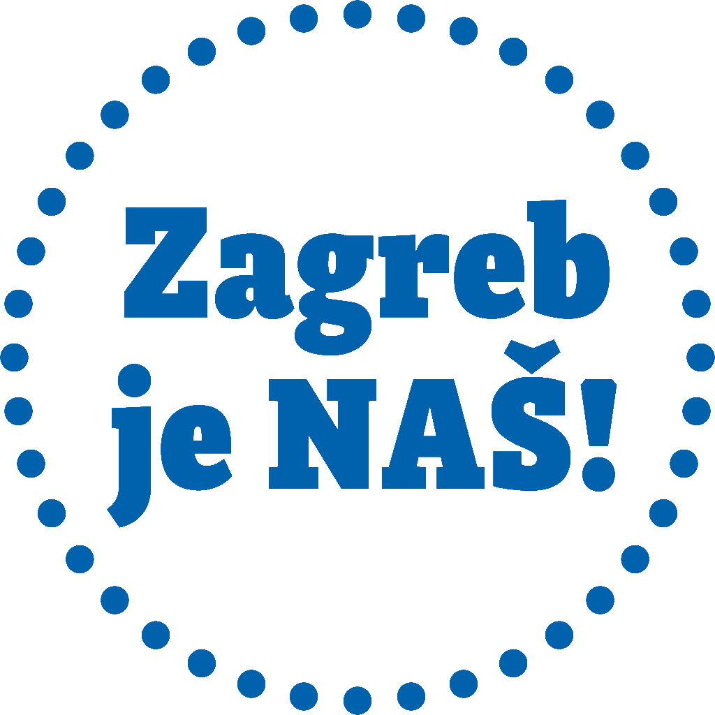 official logo of Zagreb is OURS! platform